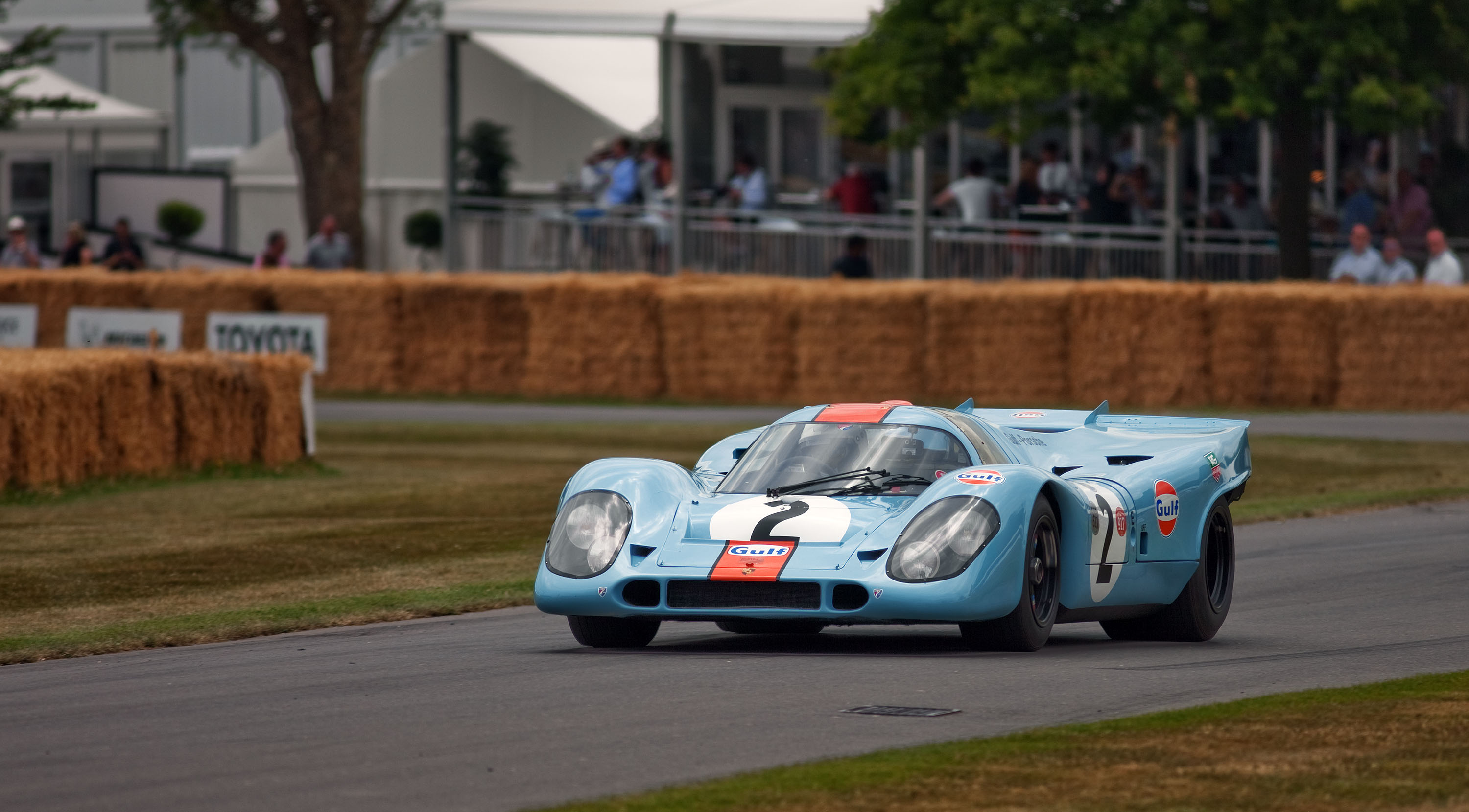 1970 Gulf Porsche 917 on the hillclimb at the 2019 Goodwood Festival of Speed